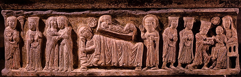 Sepulchral of Ramon de Roda at San Vicente Cathedral, in Roda de Isábena, Huesca, Spain.